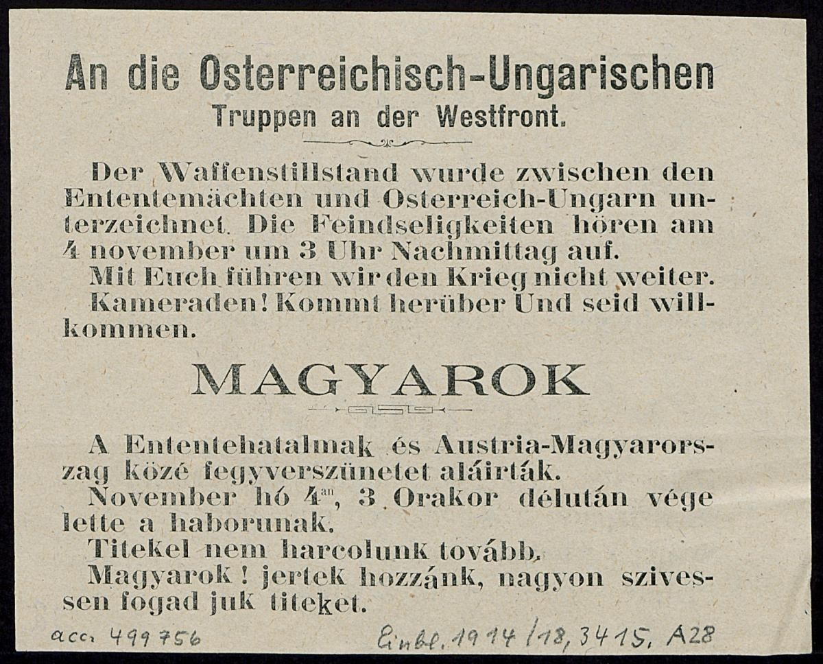 Call of the Austro- Hungarian troops on the Western Front to surrender in German and Hungarian.